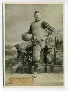 In 1894, Lawson Fiscus became the sixth known professional football player. This image is well known and can be found in various books about early football.